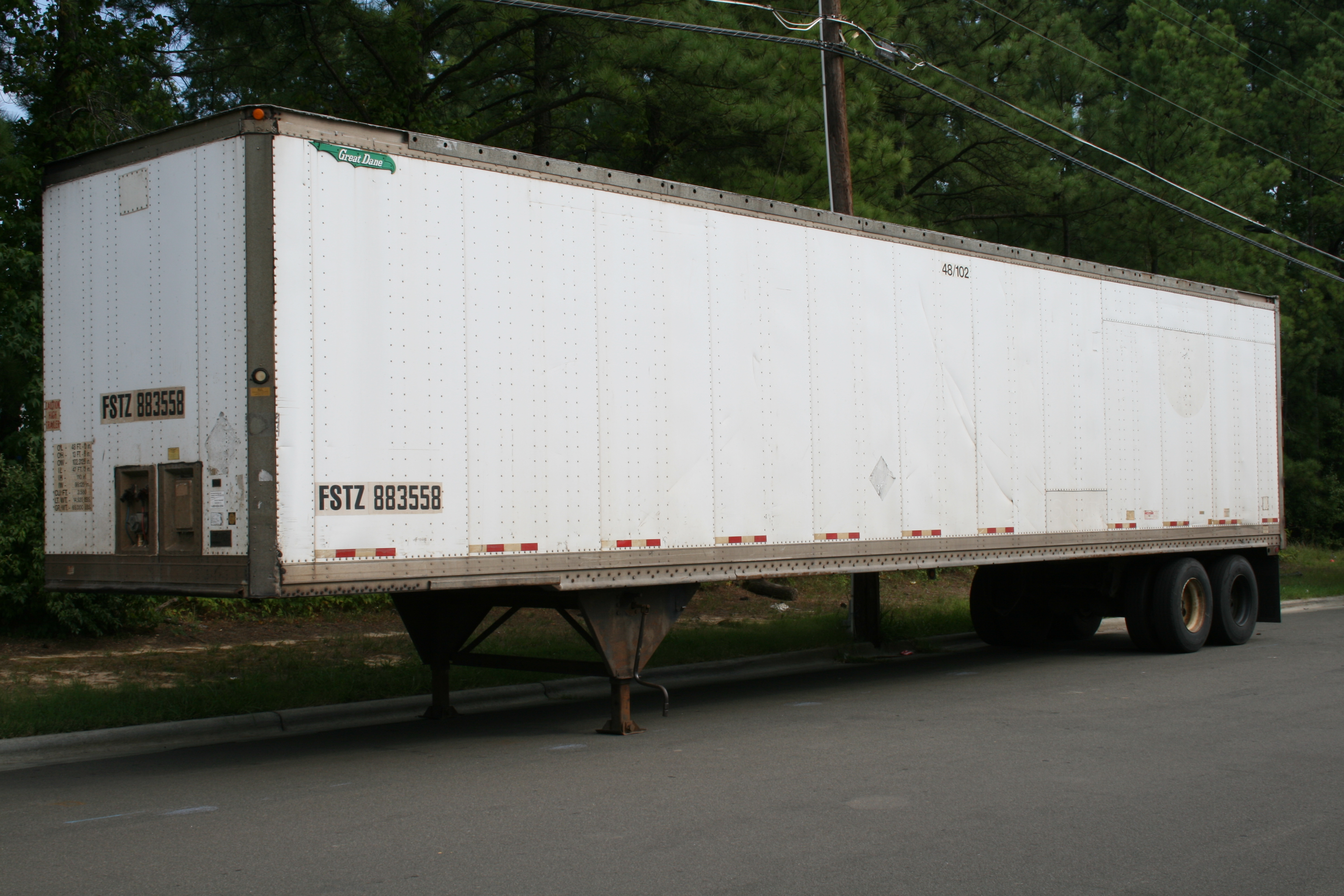 Trailer parked on Fay St adjacent to the UPS facility in Durham, North Carolina.